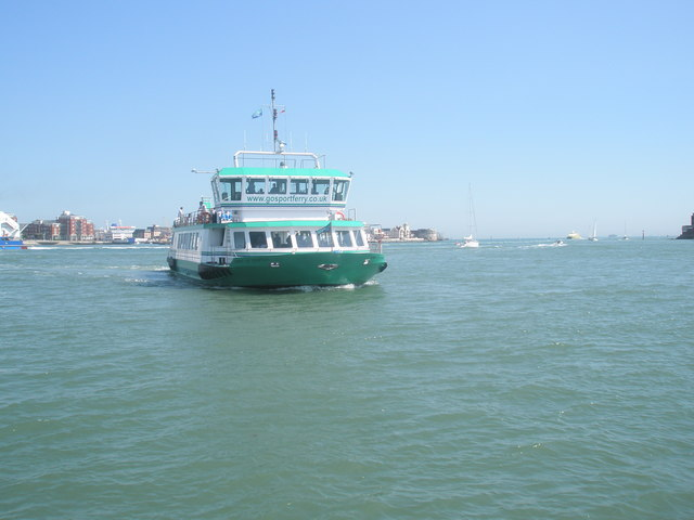 Gosport ferry approaching the terminal